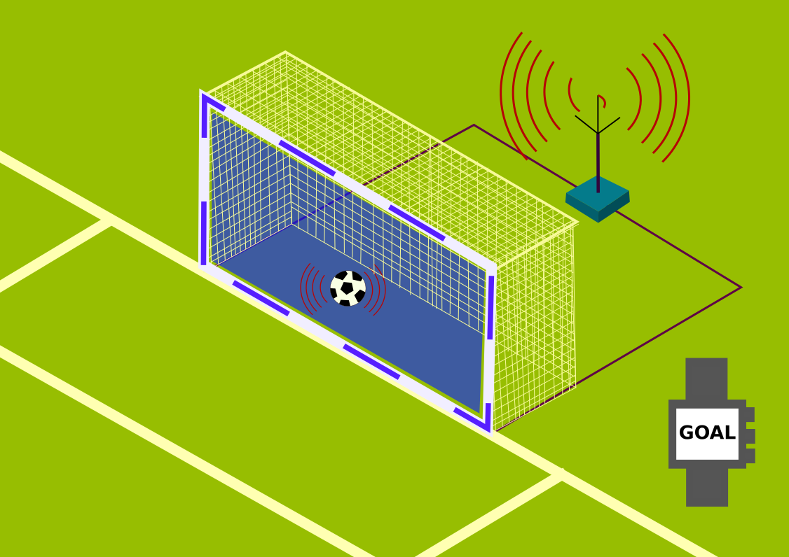 Goal Line Technology Diagram used in Football